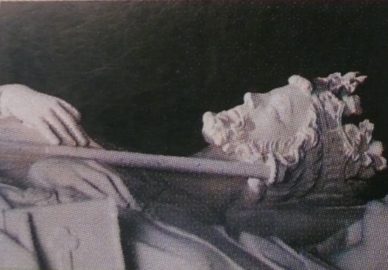 Ludvík VI.